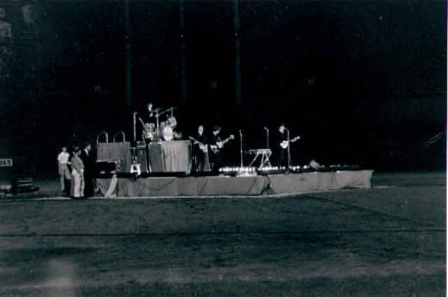 The Beatles play Metropolitan Stadium in Bloomington, Minnesota in August 1965.